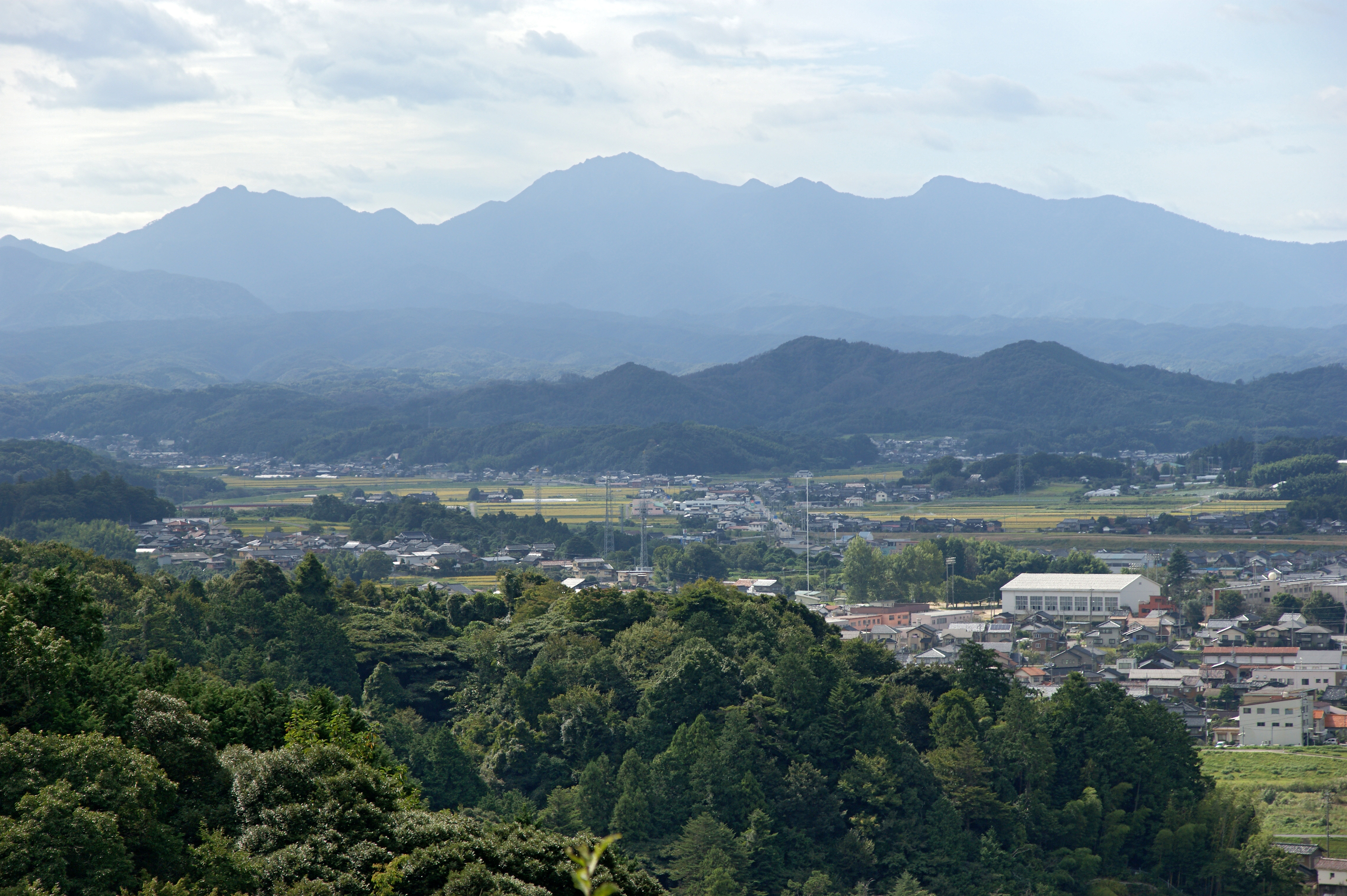 A view from Utsubuki Castle Koshinaka-maru in Kurayoshi, Tottori prefecture, Japan